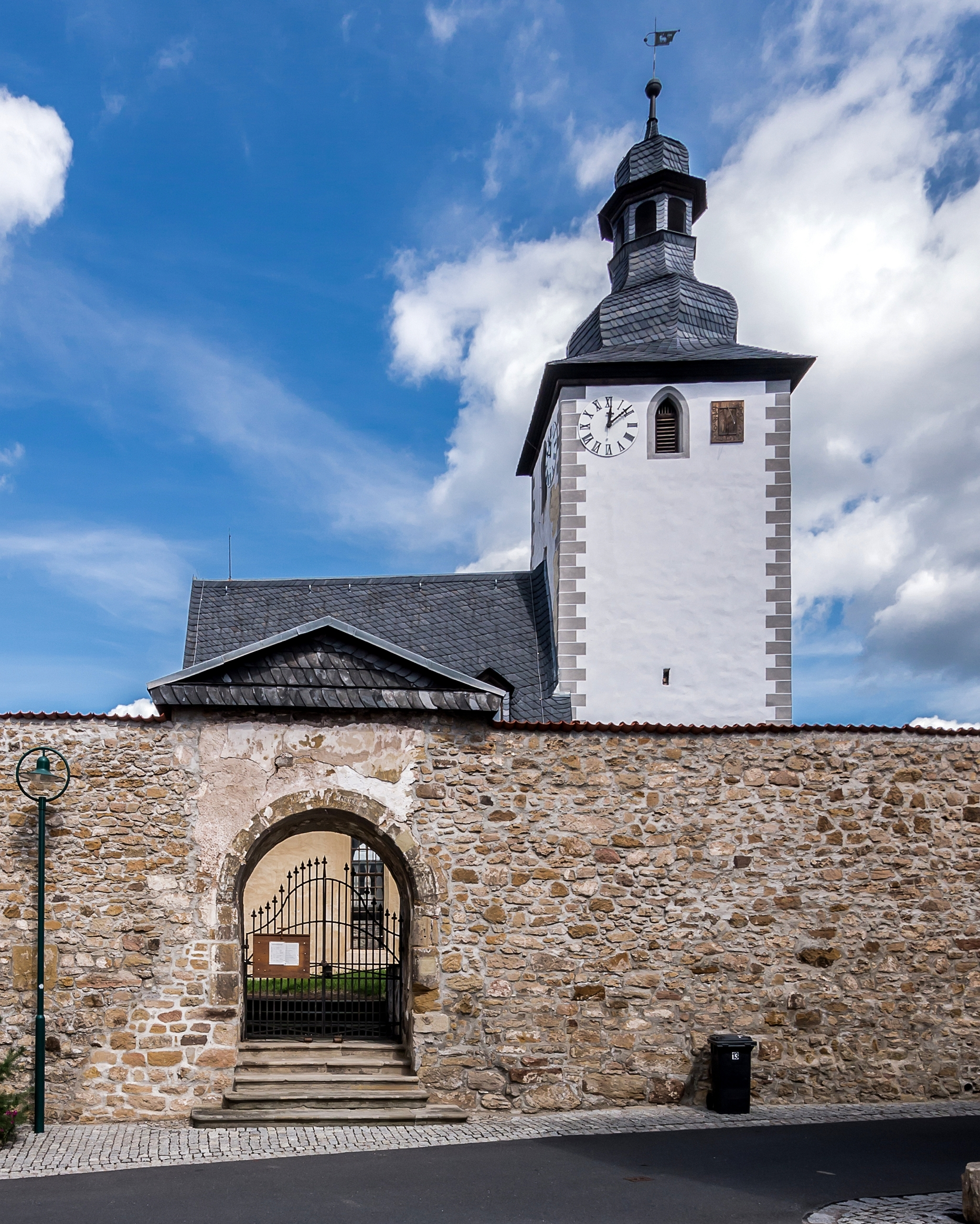 Unterwellenborn Ortsteil Röblitz Kirche